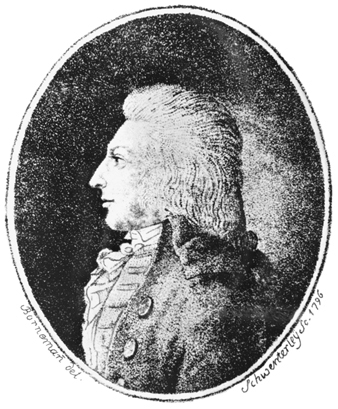 Copy of engraving of mycologist Christiaan Hendrik Persoon (1761-1836)